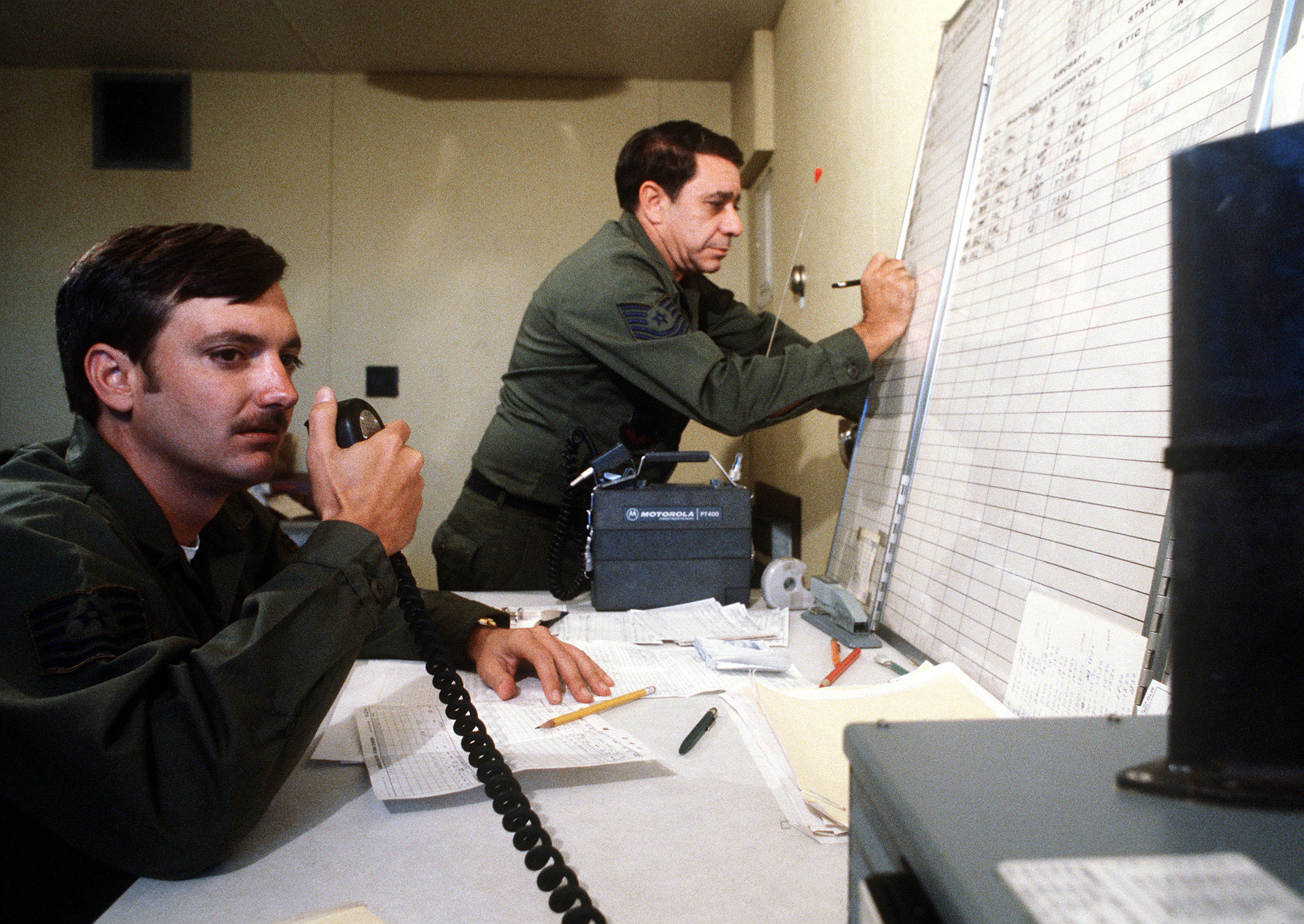 A U.S. Air Force Technical Sergeants Kenneth P. Schmidt and Emmett a. Becknel (left to right) of the 159th Tactical Fighter Group, Louisiana Air National Guard, work in a job control section.